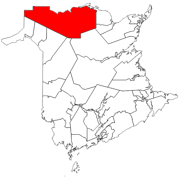 The riding of Restigouche West in relation to other New Brunswick electoral districts